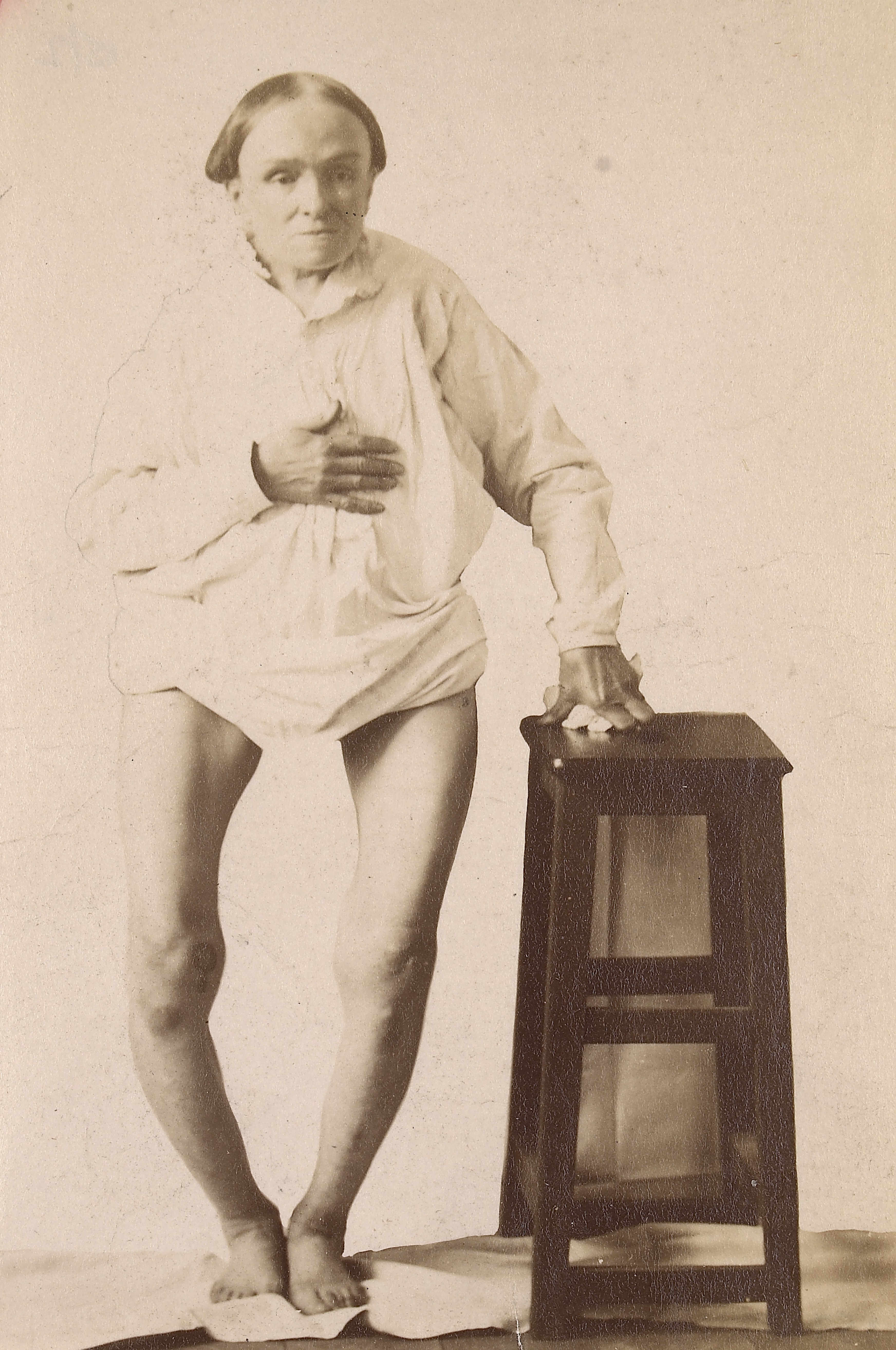 Black and white, full length photograph of a woman, aged 54 years, showing the deformity resulting from osteitis deformans. Front view. Medical Photographic Library